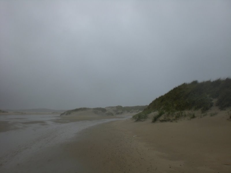 The main seawater inlet in De Slufter on Texel, Dutch Island De waterinlaat vanaf de zee in De Slufter op Texel